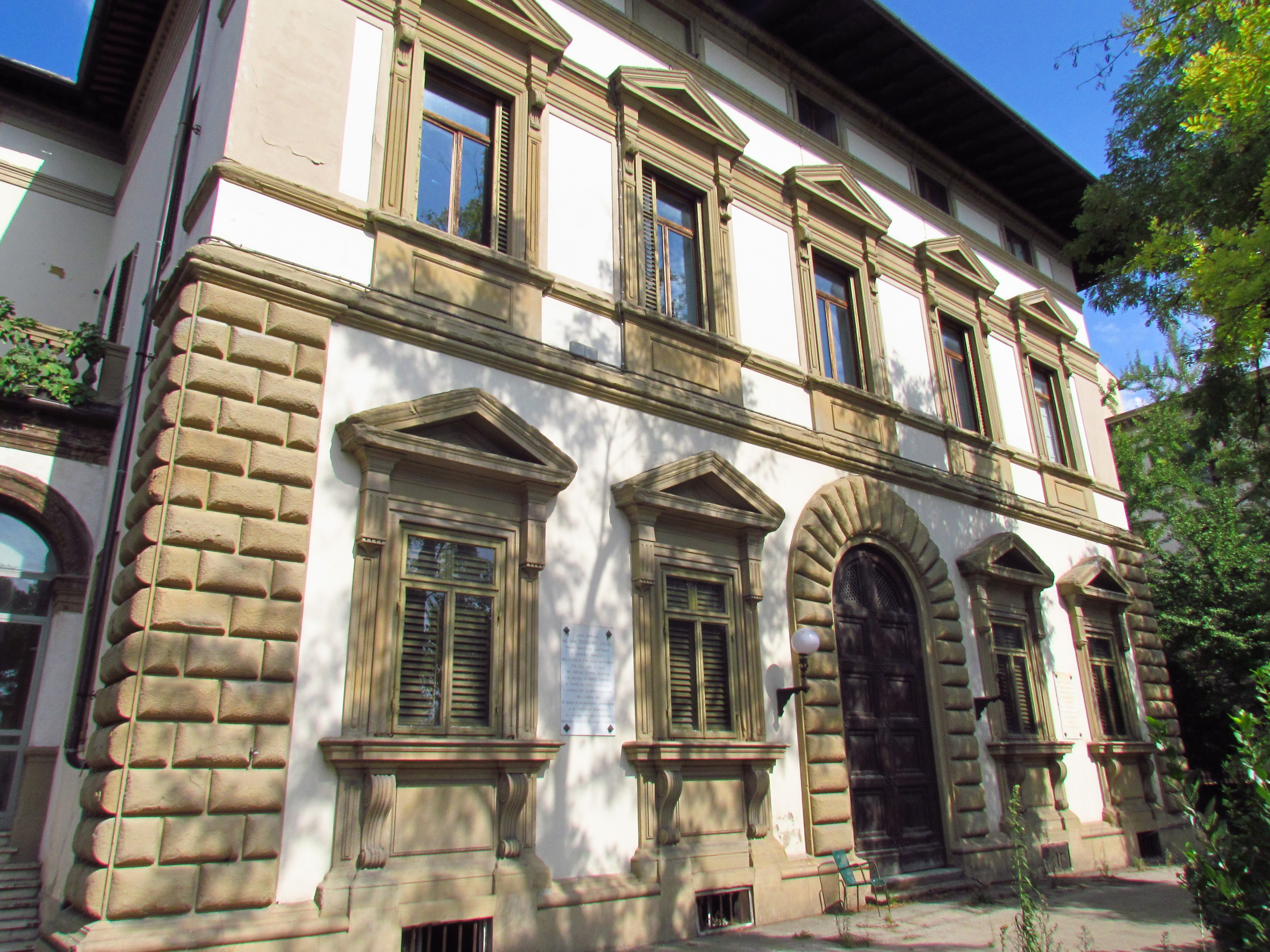 villa basilwesky1